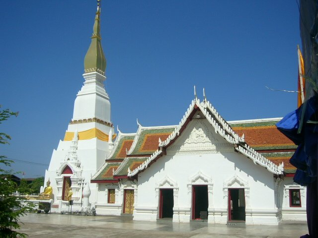 Phra That Choeng Chum, Sakon Nakhon, Thailand. Buddhist temple.